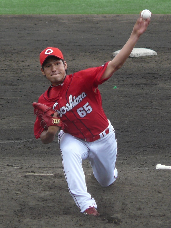 HC-Toshiaki-Aizawa20110623